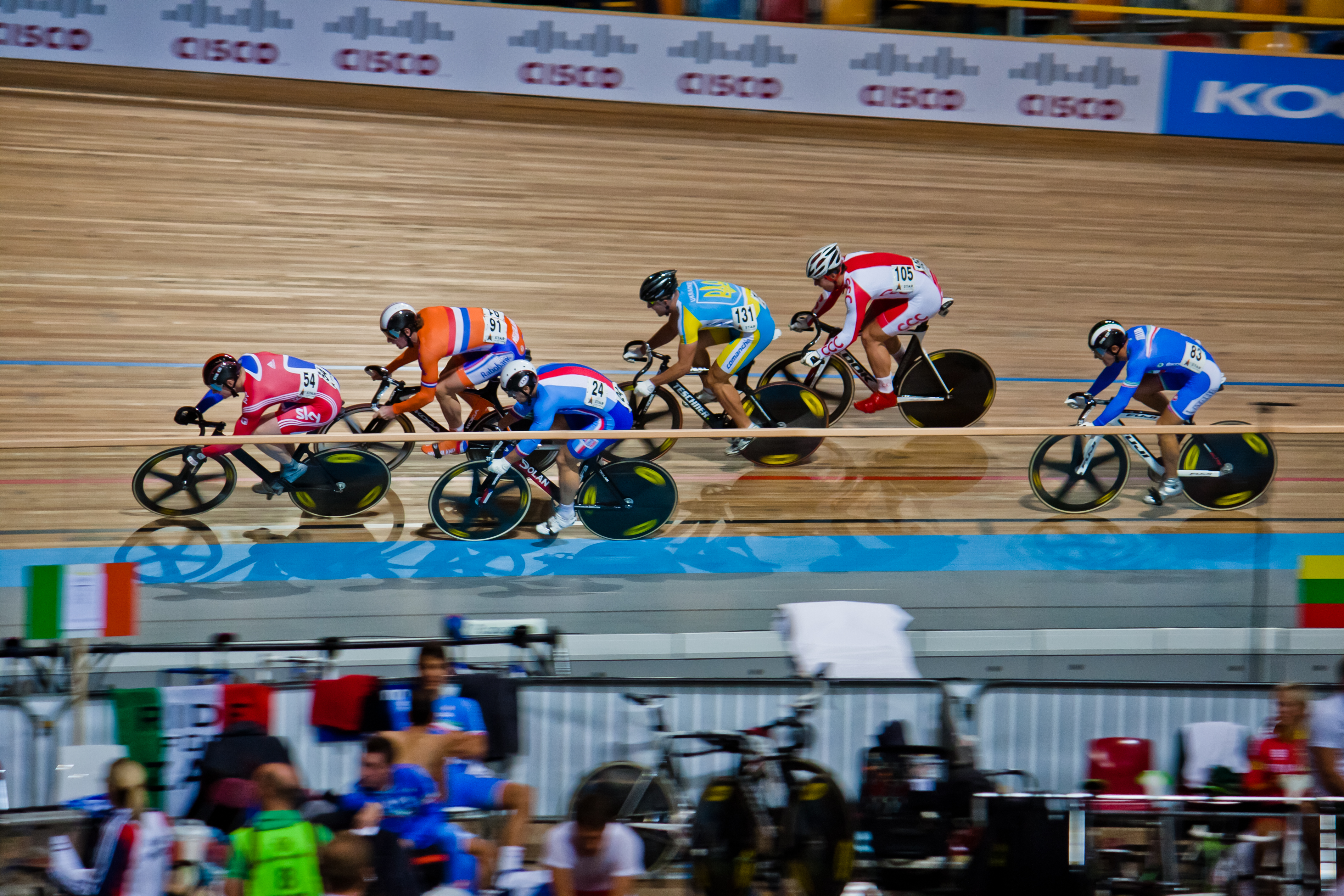 Men's keirin qualifying, heat 2. Matthew Crampton (GBR#, Hugo Haak #NED#, Adam Ptacnik #CZE#, Andril Kutsenko #UKR#, Kamil Kuczynski #POL# & Francesco Ceci #ITA). At the 2011 European Elite Track Cycling Championships in Apeldoorn, Netherlands.